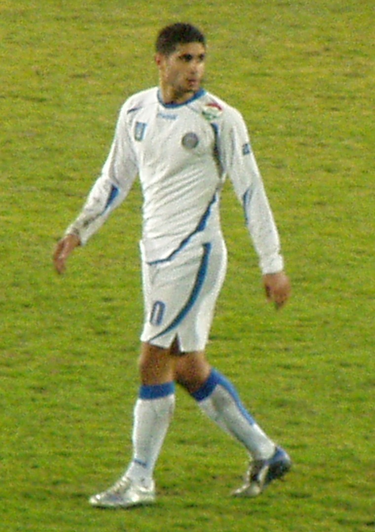 Imad Zatara footballer